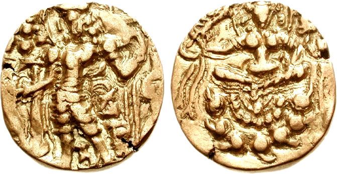 Vishnugupta Candraditya Circa 540-550 CE. AV Dinar (9.58 g, 12h). Archer type. Vishnugupta, nimbate, standing facing, head left, holding bow in right hand, arrow in left; garuḍadhvaja to left, Vishnu below arm / Lakshmi seated facing on lotus, holding diadem in her right hand, lotus in her left; [tamgha to left].